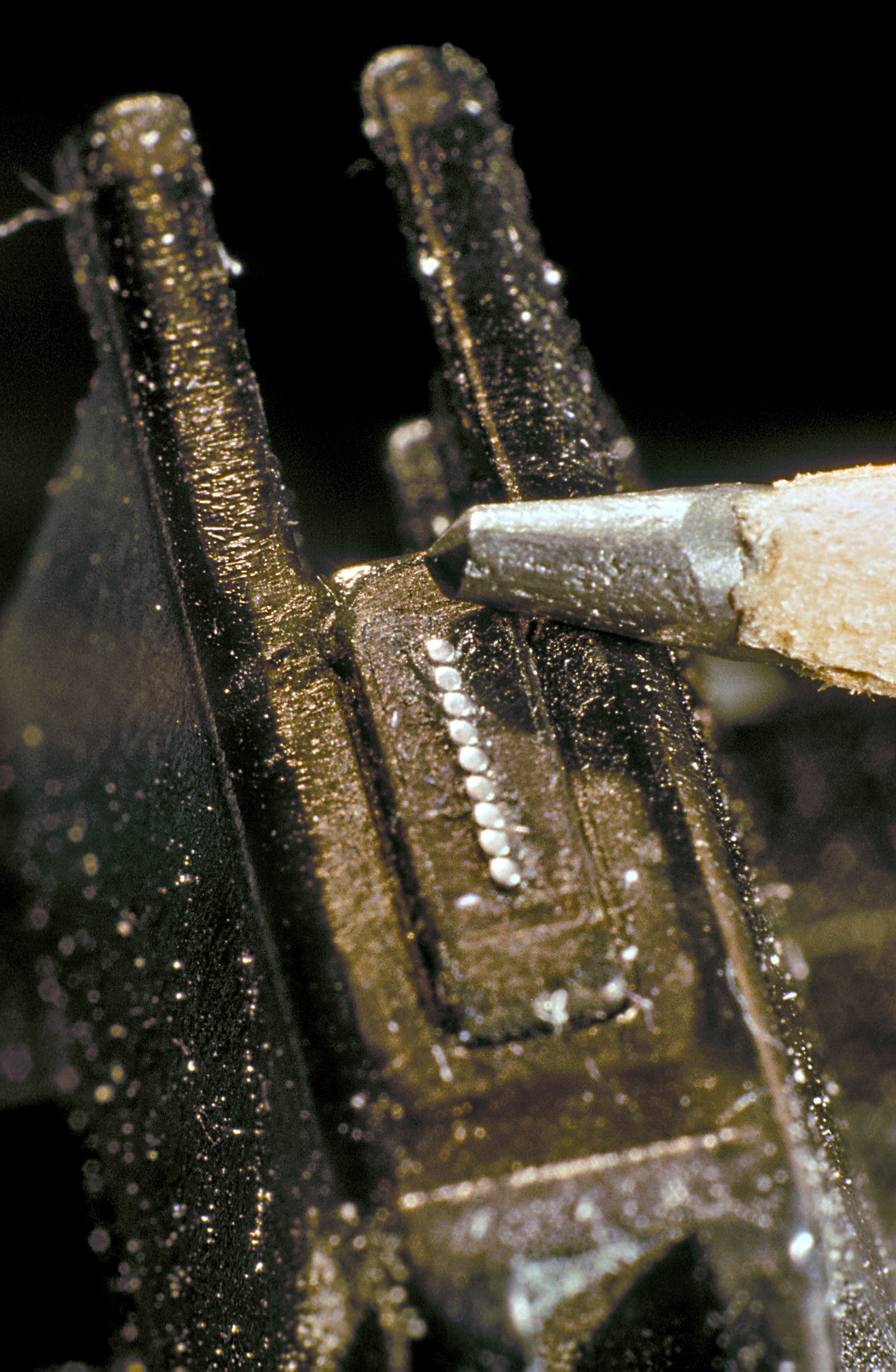 Print head of a used 9-pin dot-matrix printer (Star NL 10). Photo taken in August 1989, scanned 23. Aug. 2014